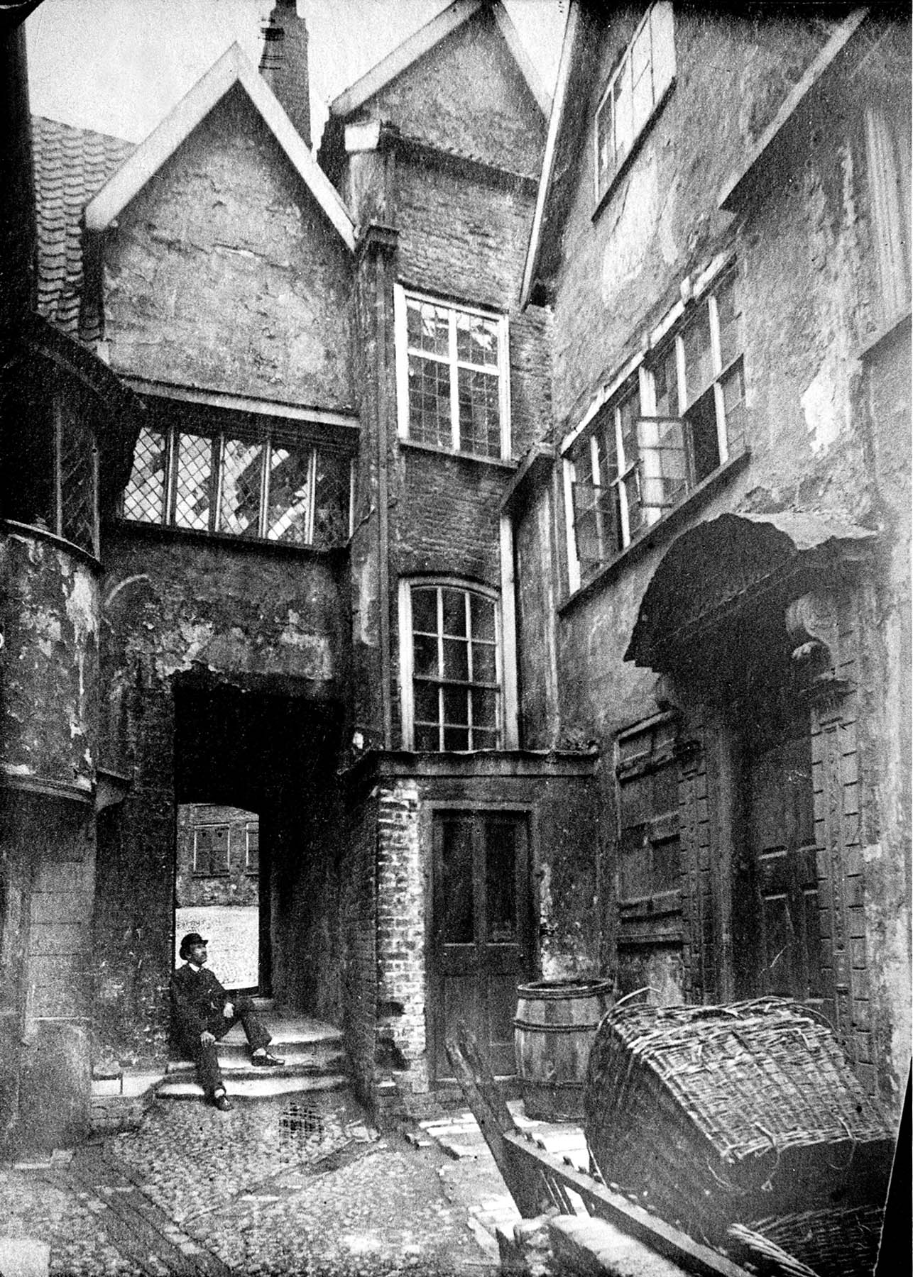 A Norwich yard in 1909